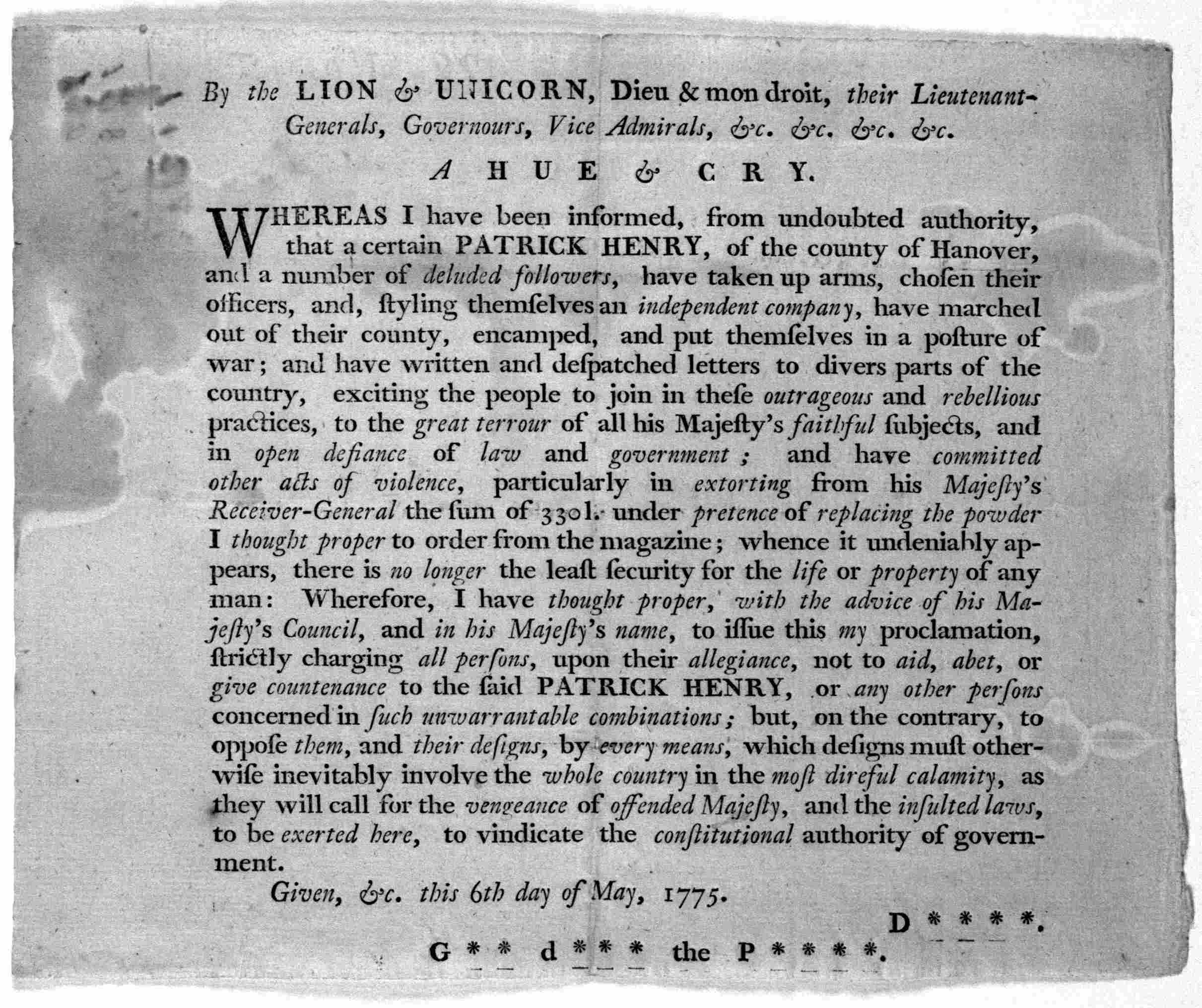 Broadside discussing role of Patrick Henry and his followers as insurgents to British rule in Virginia. The Library of Congress, Washington, D.C.